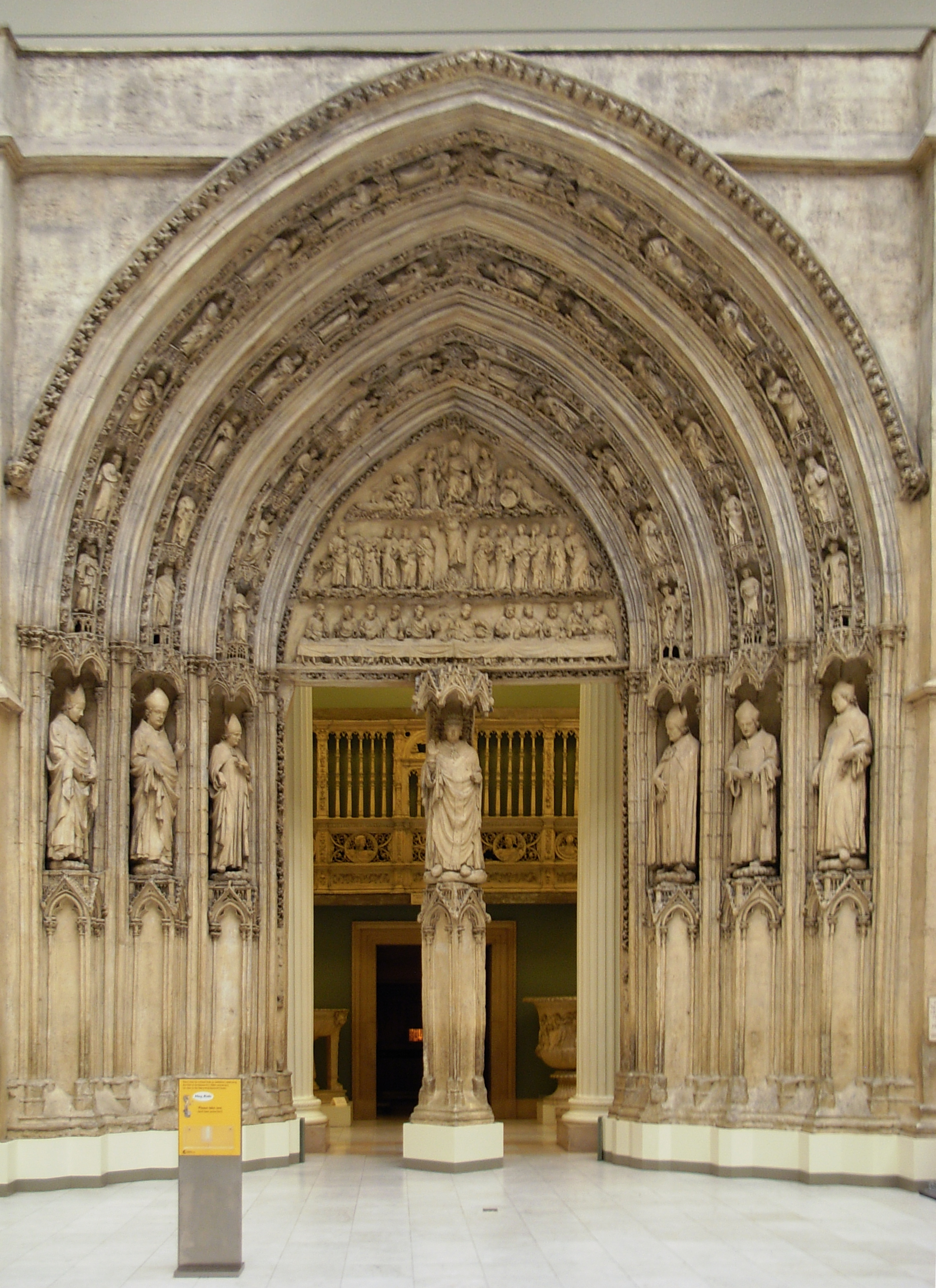 Portal of the North Transept of the Cathedral of Saint-Andre at Bourdaux. French gothic. End of 13th century AD.